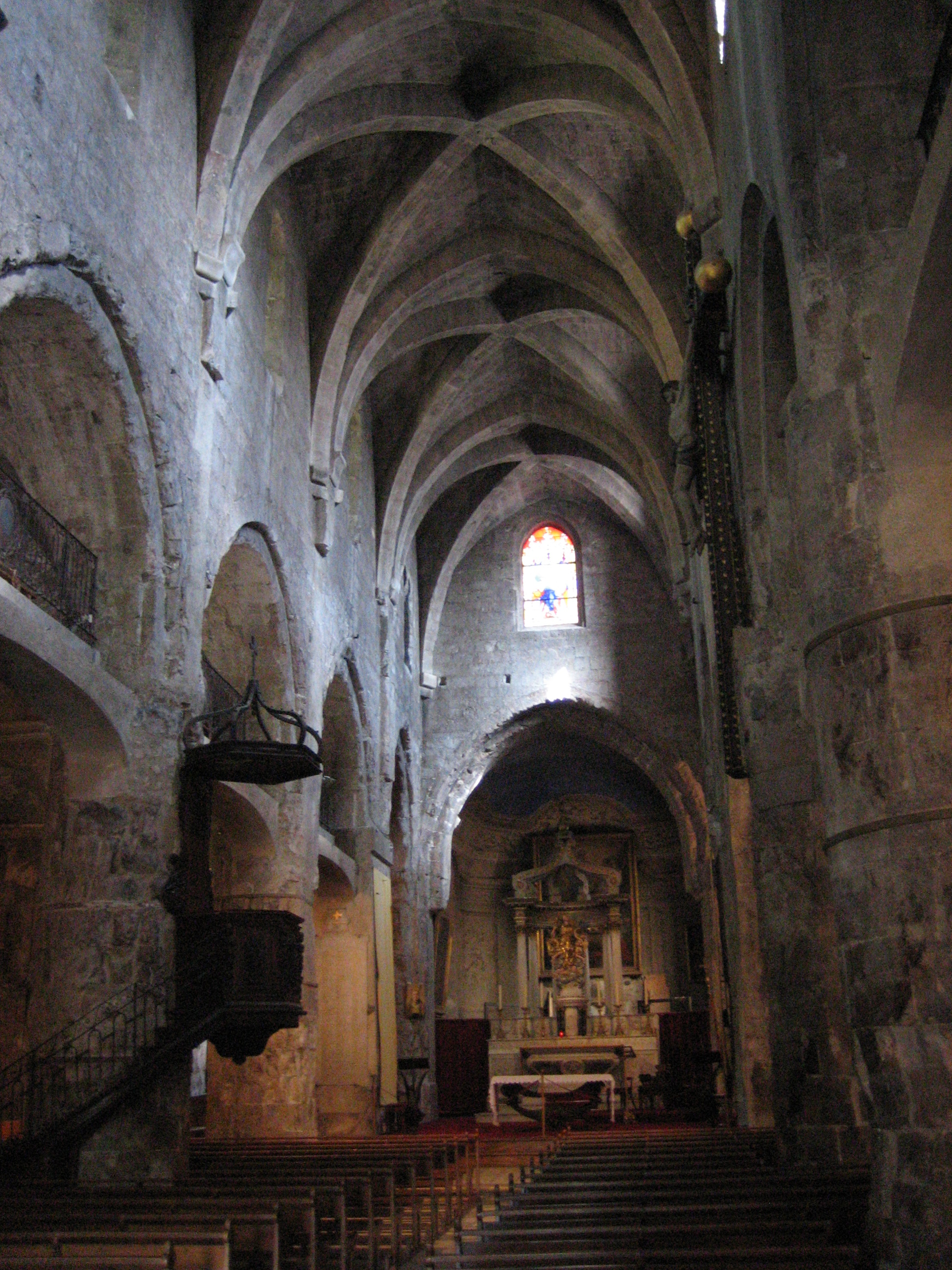 Cathedral of Grasse (France)